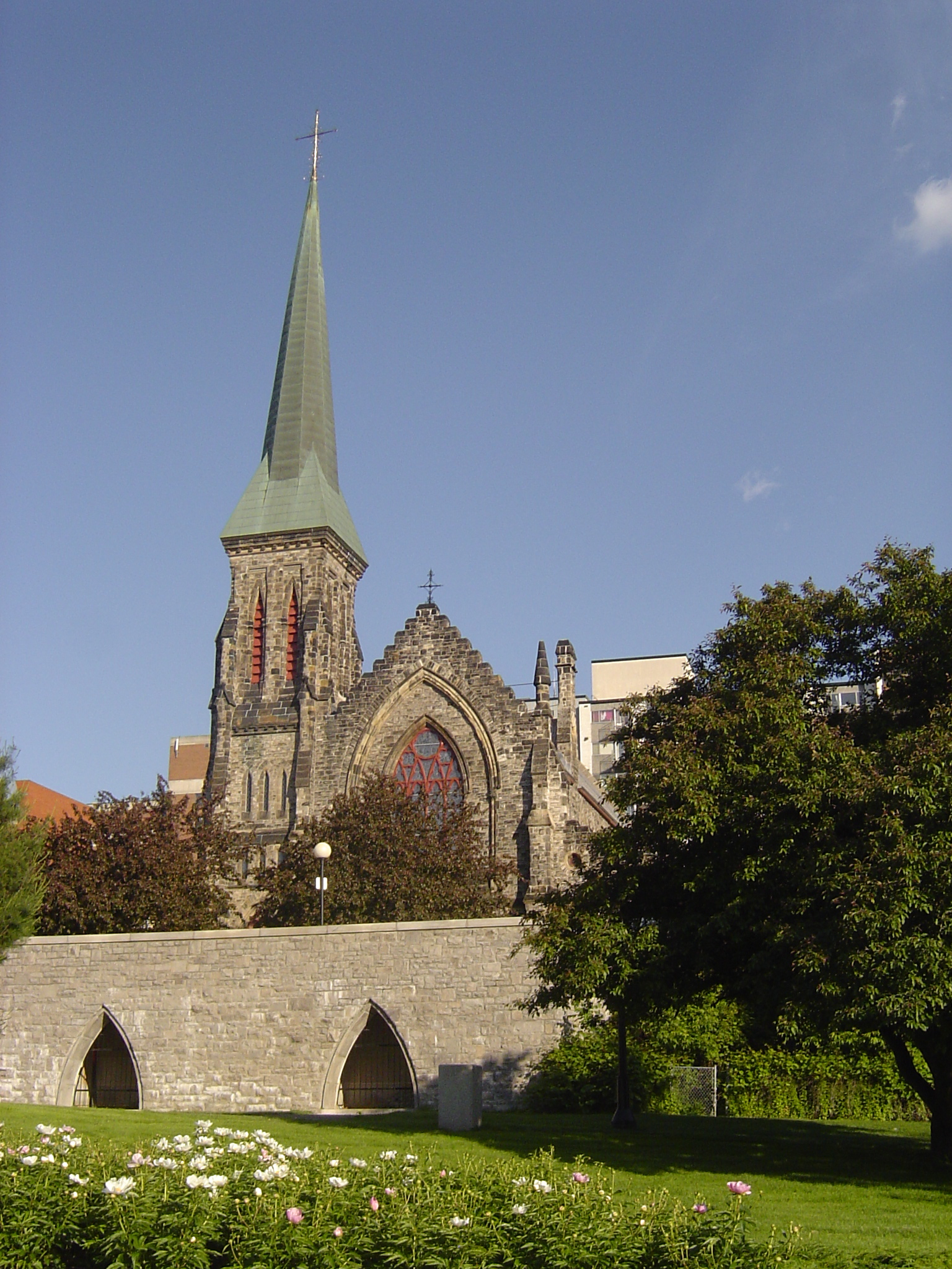 Picture of Christ Church Anglican Cathedral, Ottawa, Ontario, Canada